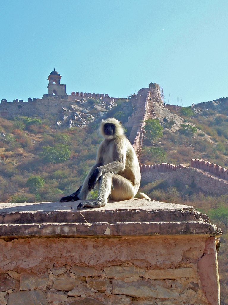 Langur monkey chilling out at the base of the fort like a sentinel. He thankfully did not demand any take of treats.